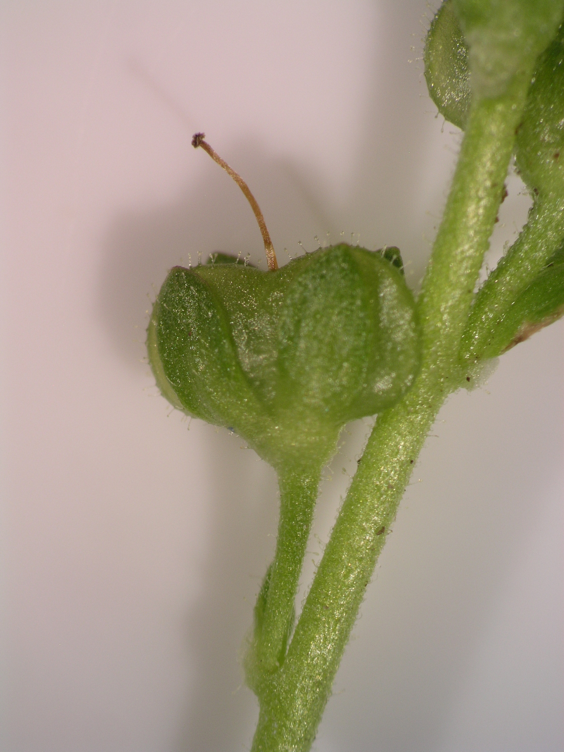 Fruit of Veronica serpyllifolia